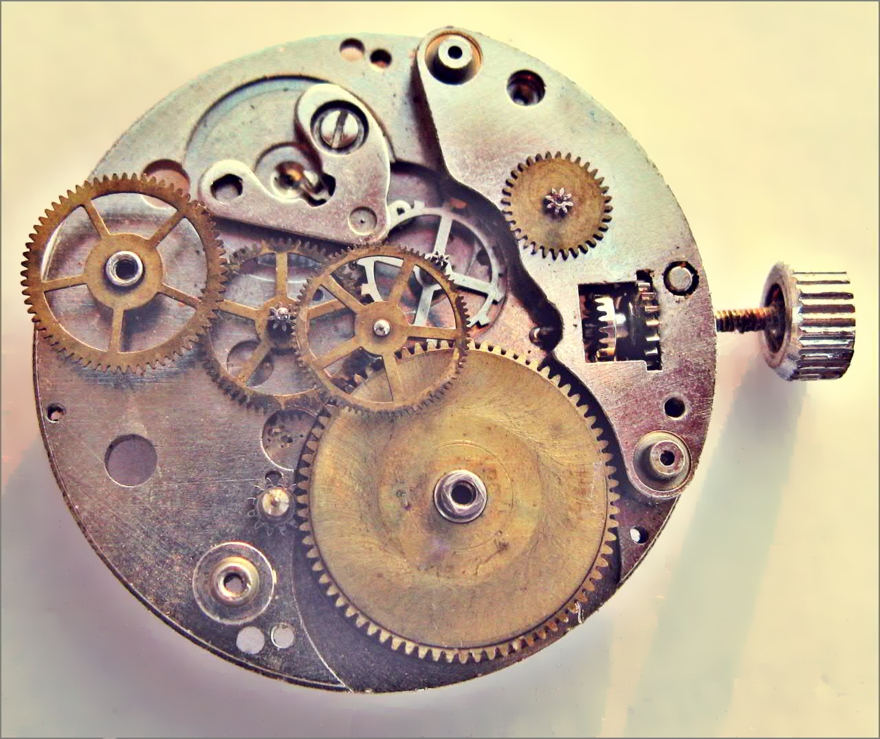 My grandfather was a great man. He had ultimate collection of more than 100 watches; unfortunately his collection was robbed of during trip to Singapore on a ship in 1965 (as he told me). Yesterday, on family reunion, we visited our ancient village. When I was collecting his goods, I found 2 manual watches: unfortunately the case is too damaged to be photographed, so I revealed out the machinery inside it. It is truly a mechanical wonder made up of so tiny parts, I wonder how they assembled them in those days.